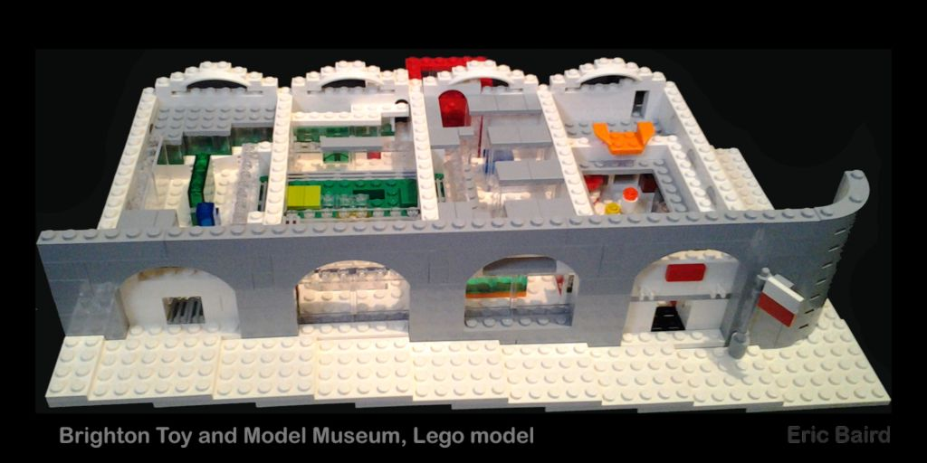 A model of Brighton Toy and Model Museum, rendered in Lego. The model shows the Museum's Victorian exterior, and the layout of around seventy of its display areas